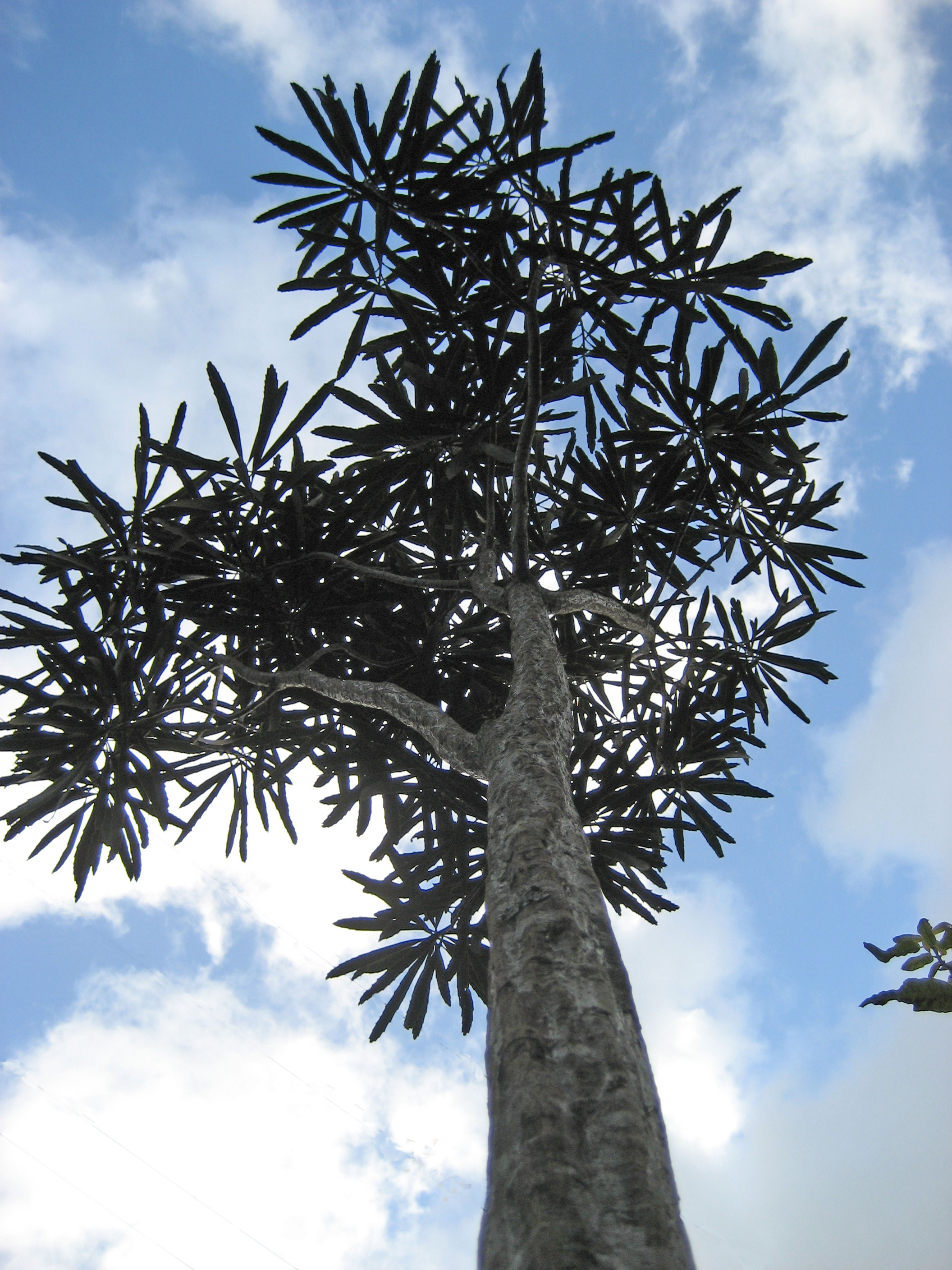 Pseudopanax crassifolius, adult tree. Auckland, New Zealand